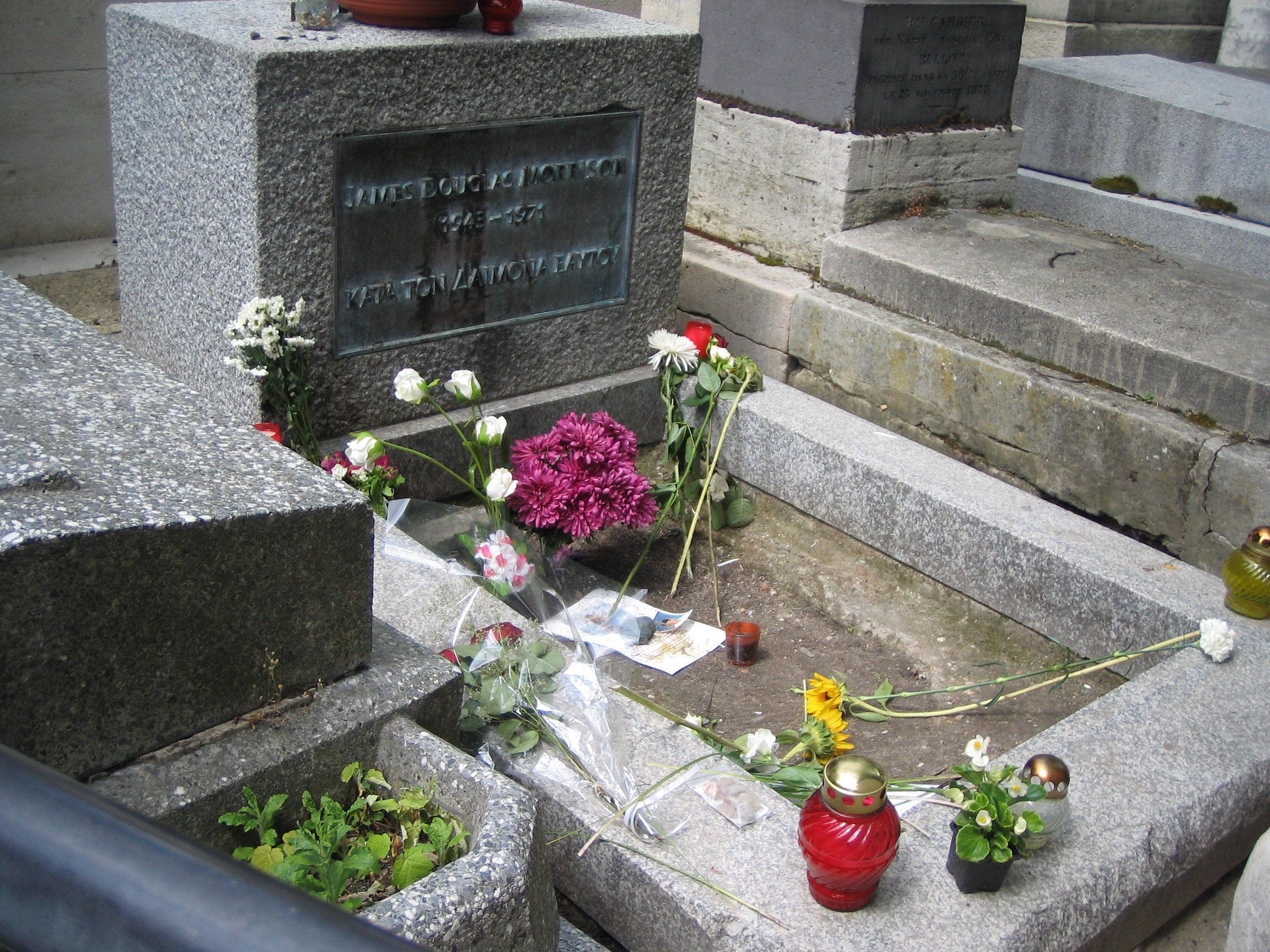 Jim Morrison's mouerté avec Paris, France.